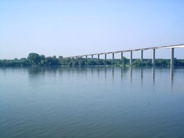 Beška bridge on the Danube river in Serbia